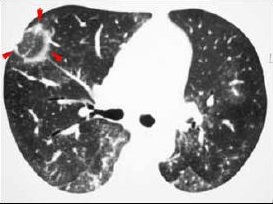 CT scan of the chest of a 59-year-old with four months of progressive weight loss, fever, dry cough and dyspnea. it shows a reversed halo sign. A diagnosis of bronchiolitis obliterans organizing pneumonia was made.